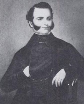 "Disenchanted with the civil government, Mariano Guadalupe Vallejo (1807-1890), Comandante General in 1841, feared for California." General, Governor, and Californio grantee (1834) of Rancho Petaluma during the Mexican Alta California period, and California State Senator after U.S. statehood.